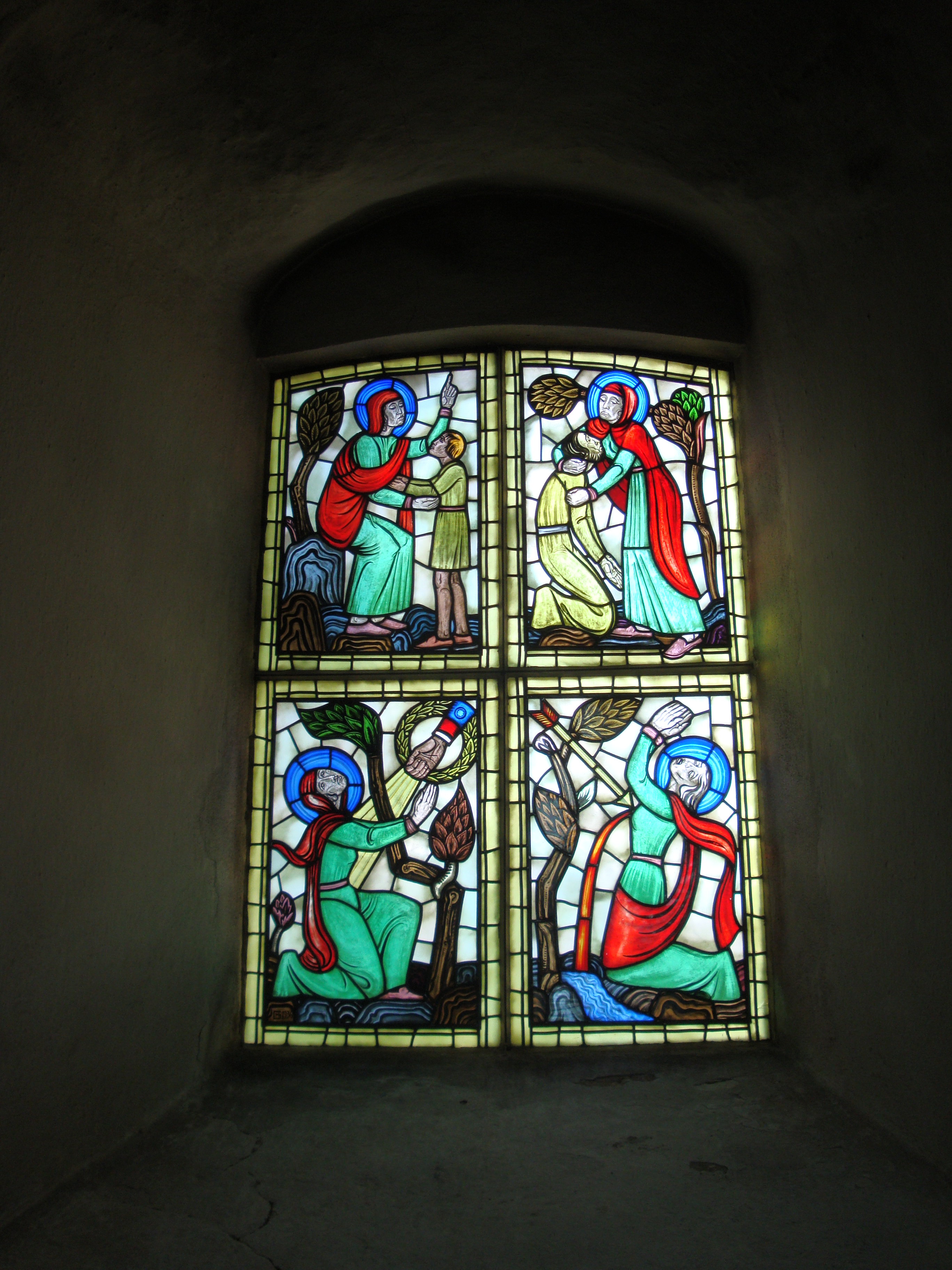 Church window showing the life of Saint Magnhild of Fulltofta, Fulltofta, Skåne, Sweden